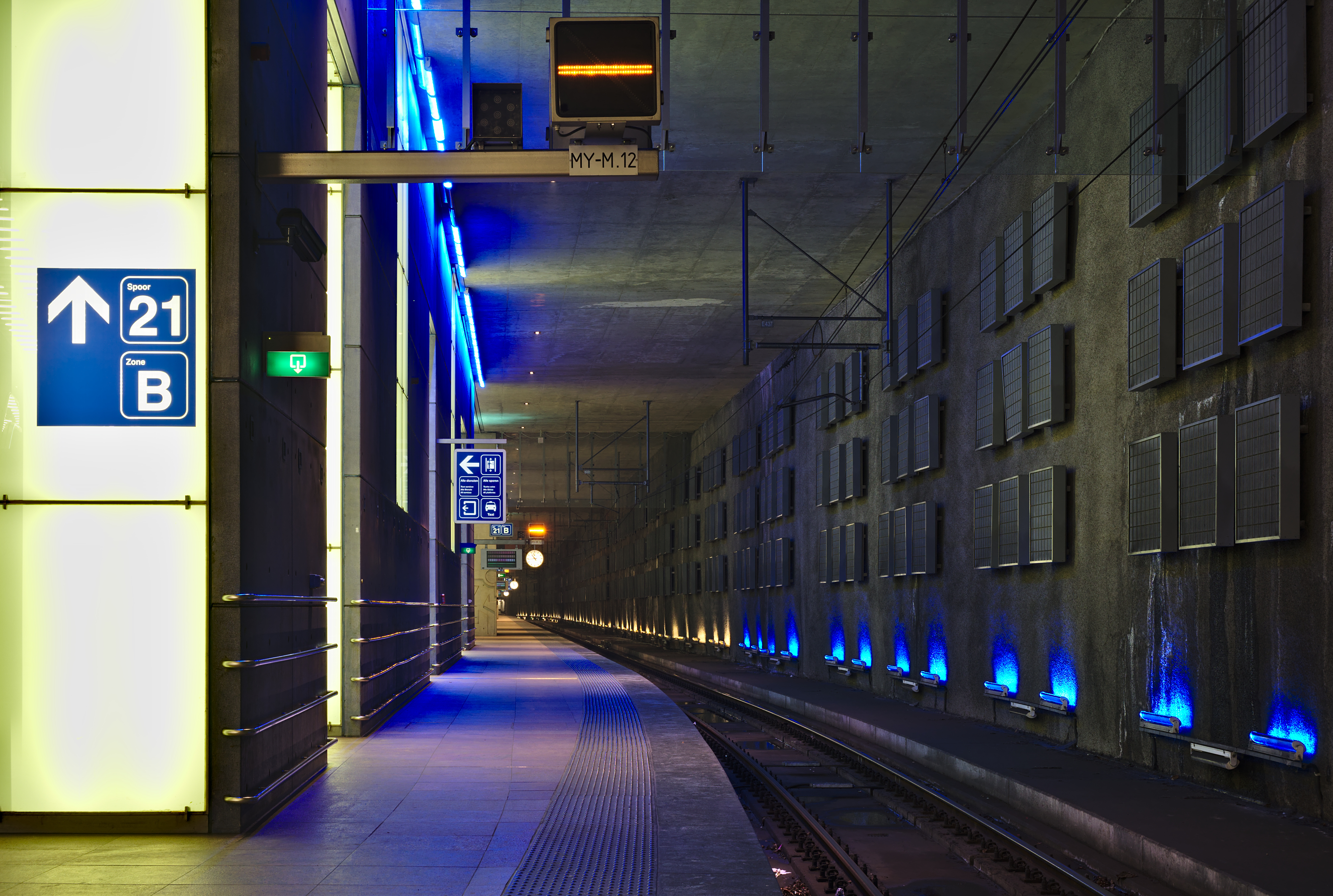 Antwerpen-Centraal railway station, platform 21 (level -2), Belgium